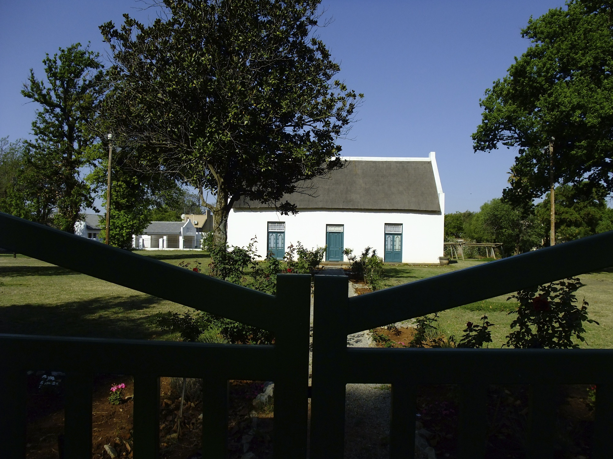 House of President M W Pretorius, Van der Hoff Avenue, Potchefstroom (new street name: Thabo Mbeki Drive) This media shows a South African Protected Site with SAHRA file reference 9/2/256/0007-001.